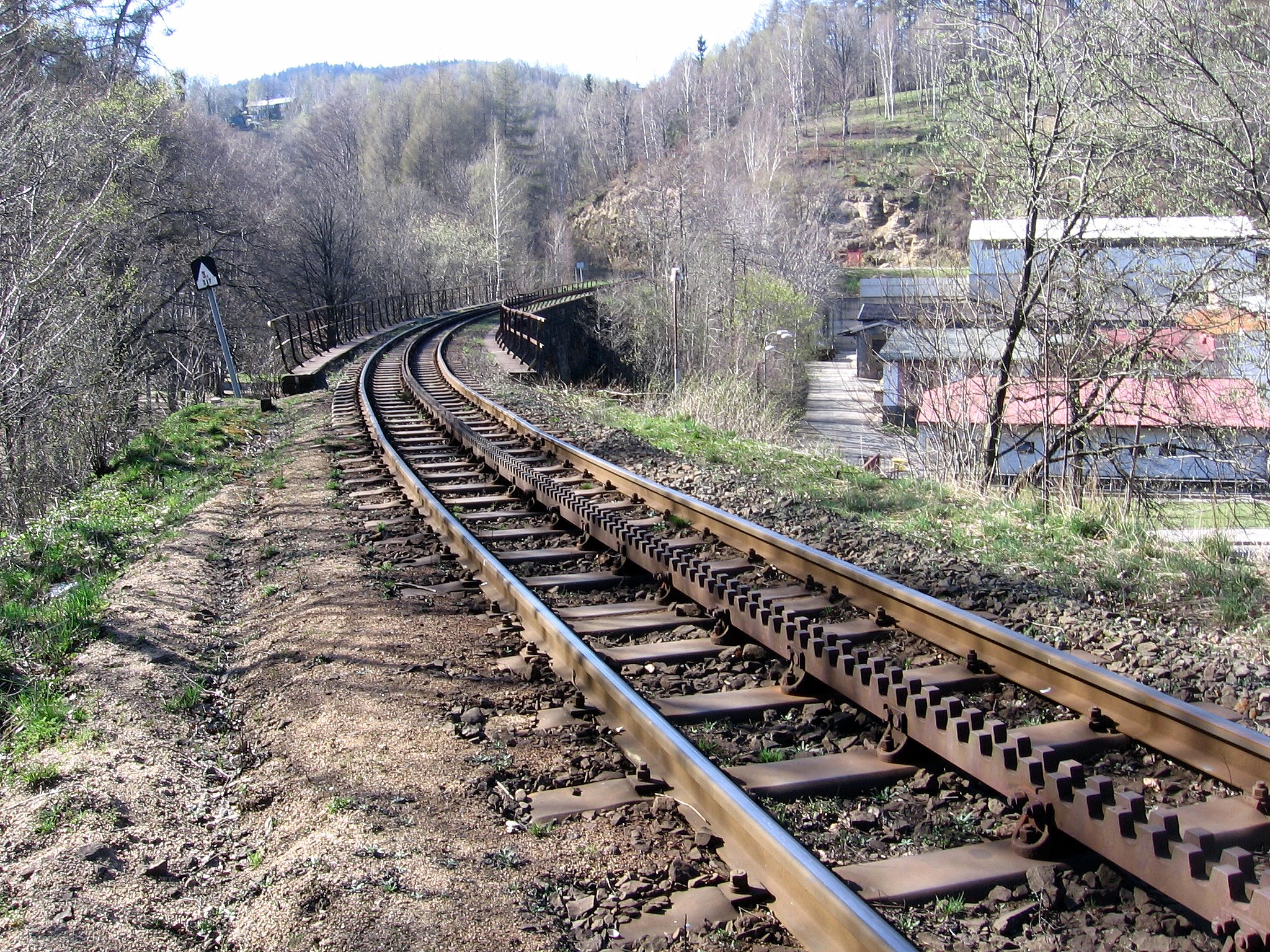 Desna (Czech Republic) - cog railway (Abt rack system)